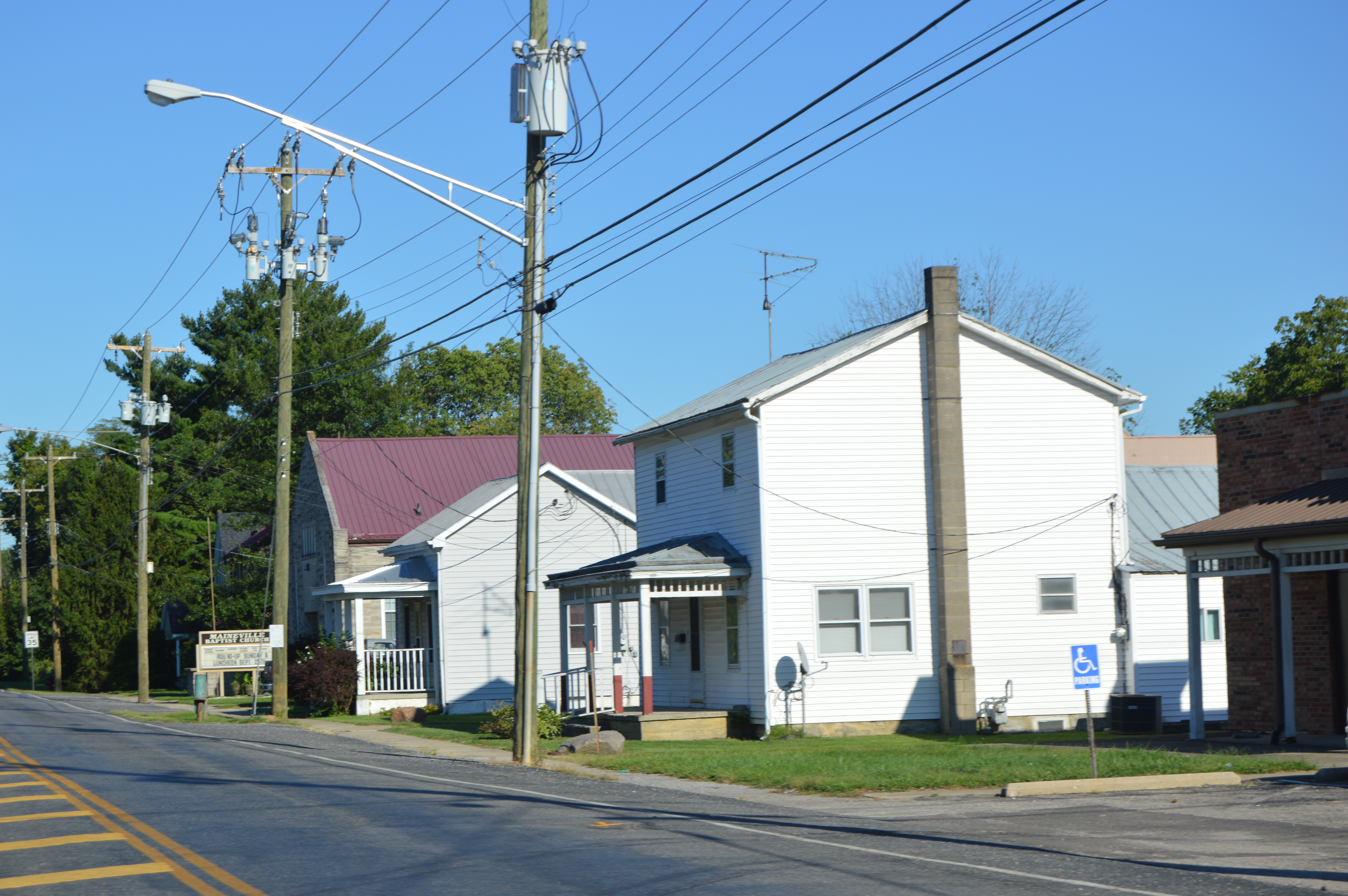 Looking east from State Route 48 toward buildings on the southern side of Maineville Road in central Maineville, Ohio, United States.